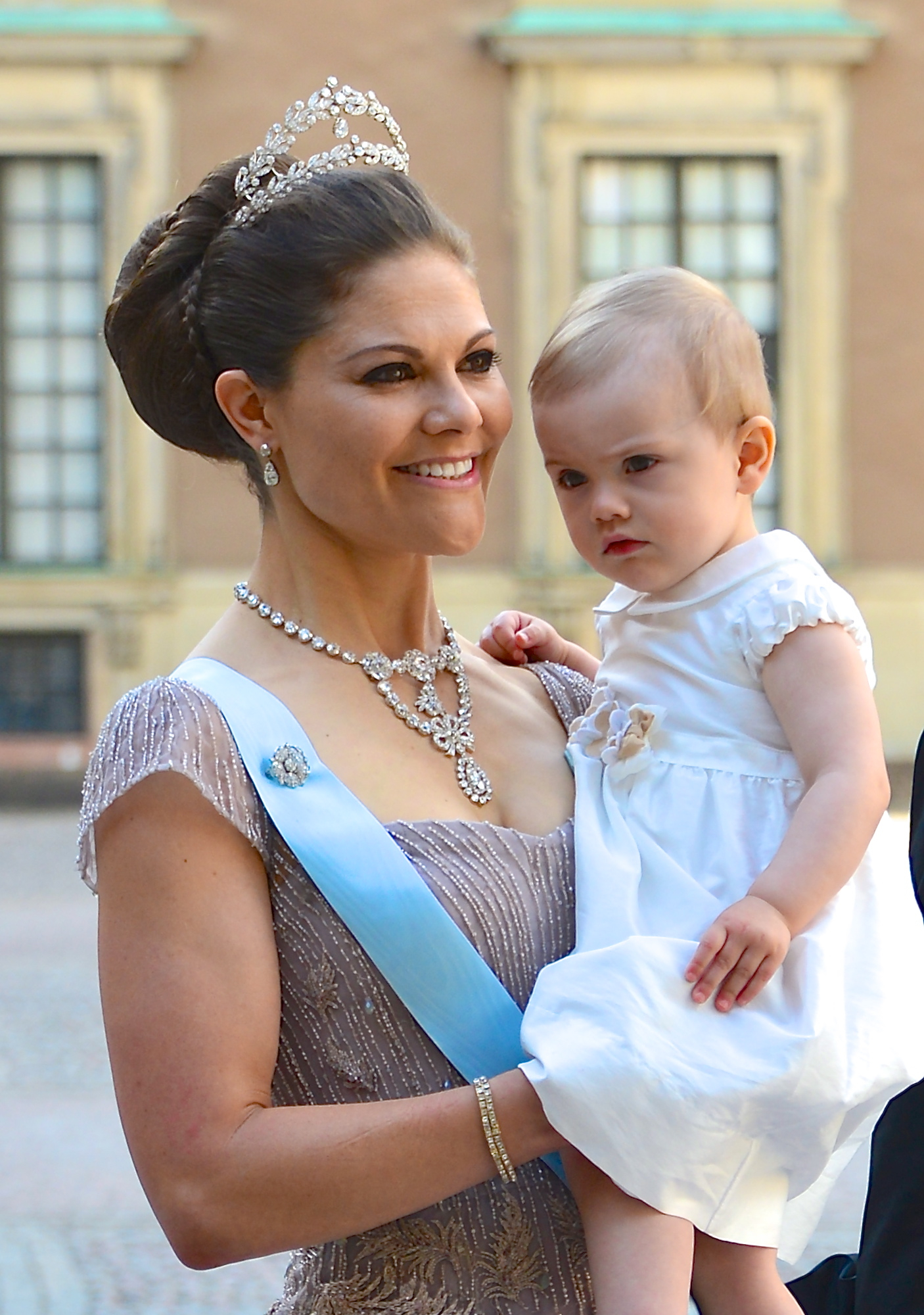 Crown Princess Victoria and Princess Estelle on the way to the castle church at the Royal Palace in Stockholm for the wedding between Princess Madeleine and Christopher O'Neill, June 8, 2013.